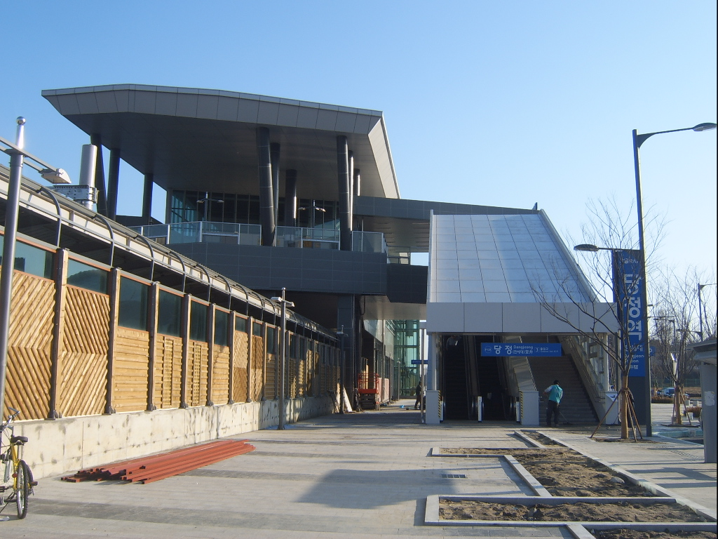 Korail Dangjeong station exit 3